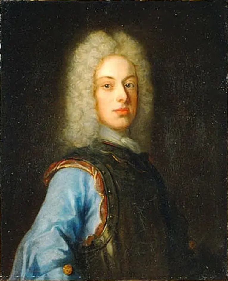 Prince Carl Frederick of Sweden